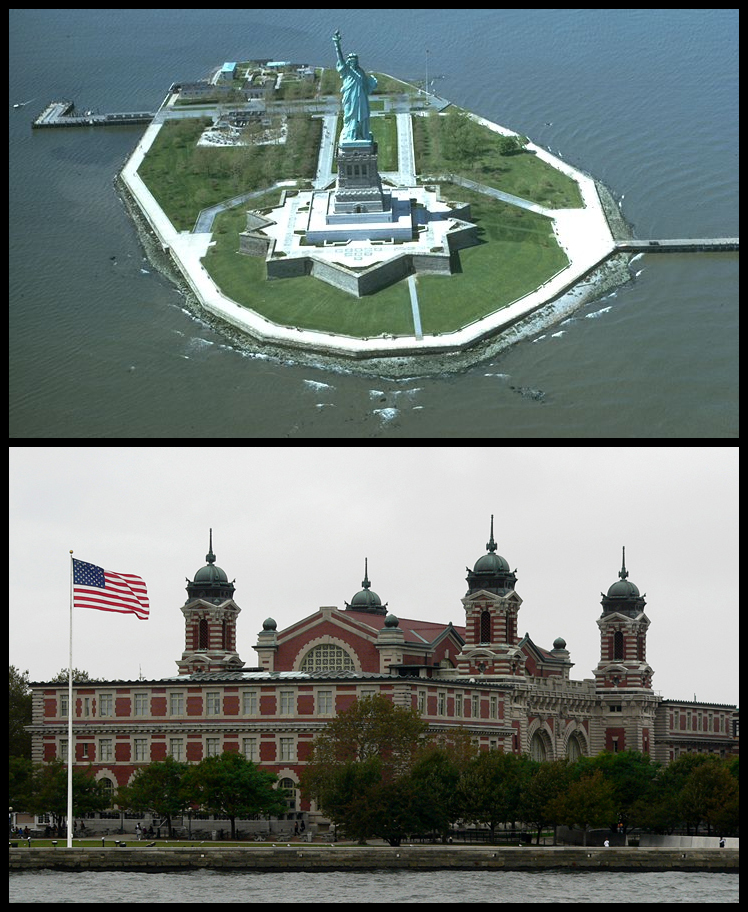 Image containing pictures of Liberty Island and Ellis Island.